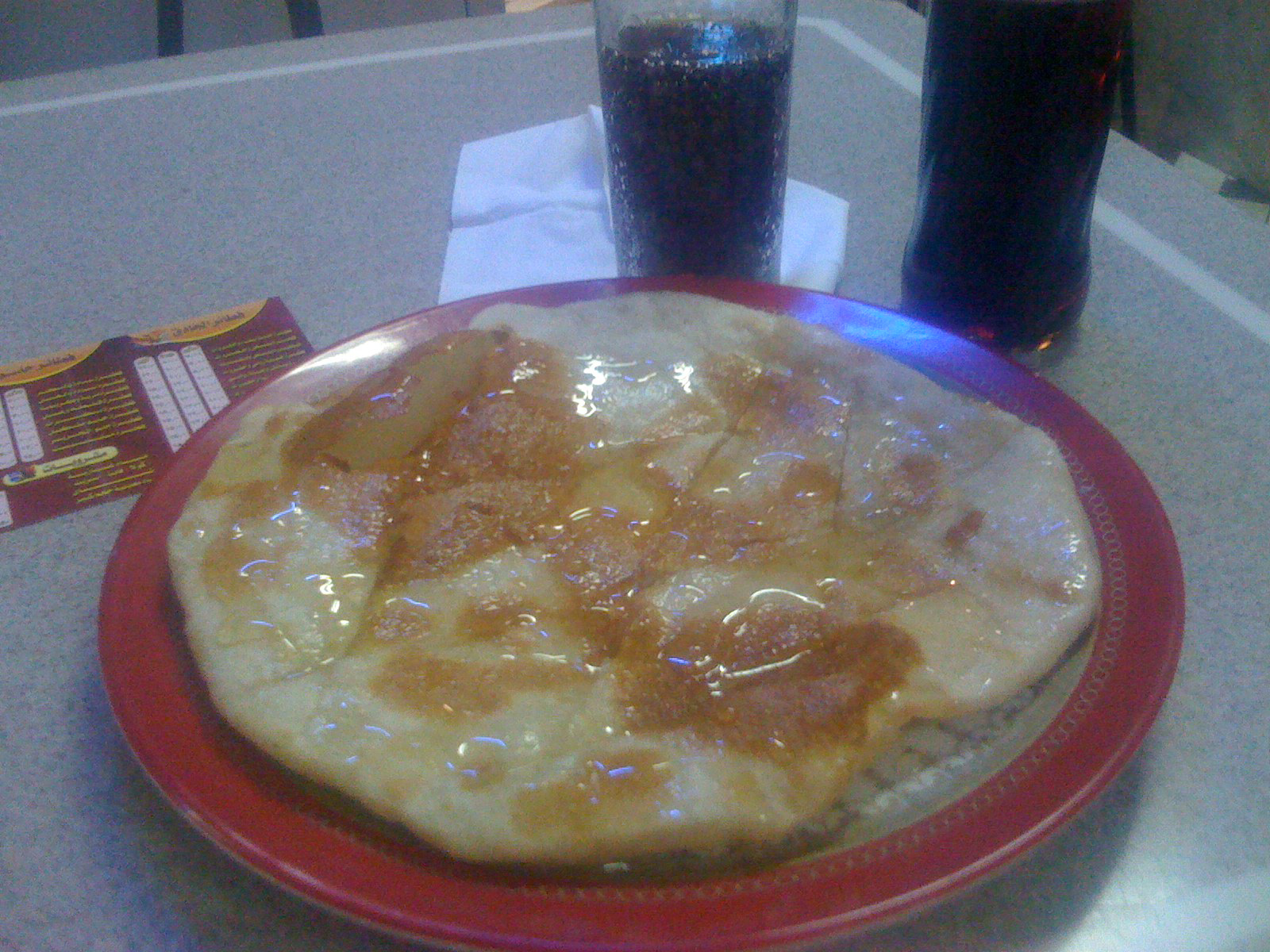 This is a pastry, here with honey. It can be eaten as a meal or snack, with sweet ingredients like jam or honey, or salty toppings like cheese, meat, and vegetables which make it more like a pizza., Cairo.